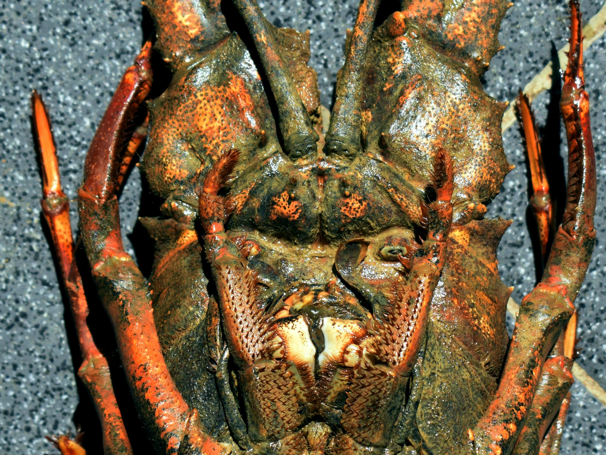 Indian Ocean spear lobster, Linuparus somniosus. Female, 134 mm CL (carapace length). From Palabuhanratu Fish Market, West Java, Indonesia. Mouth and epistome region.